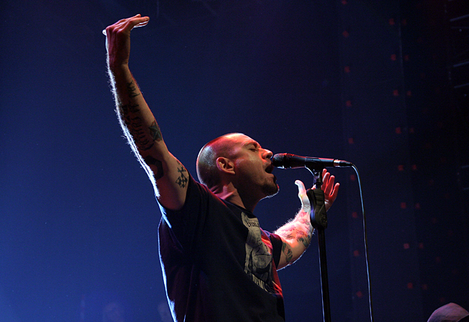 Siarhiej Michałok. Concert at B1 MaximumRemoved caption: © gete_ap.livejournal.com